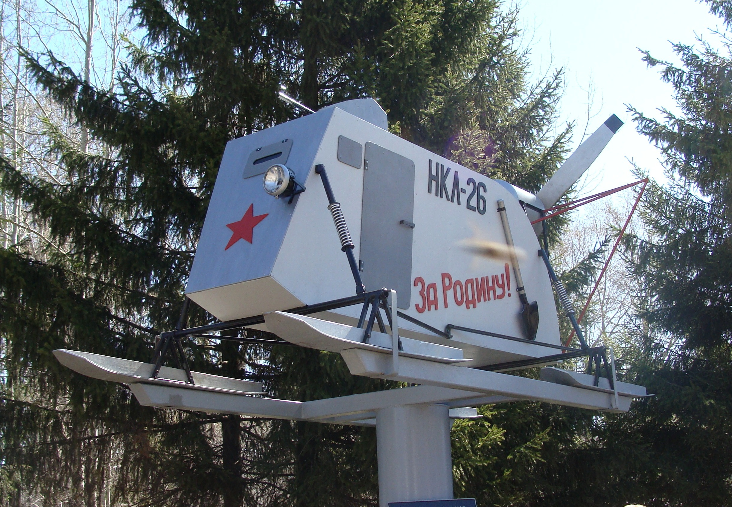 NKL-26, Koryazhma